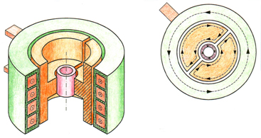 Principle of electromagnetic pulse technology for metal forming and welding: Electromagnetic coil (green), field shaper (orange) and work piece (pink)